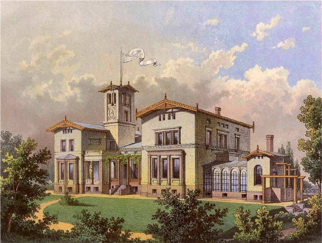 Manor in Janów, Poland